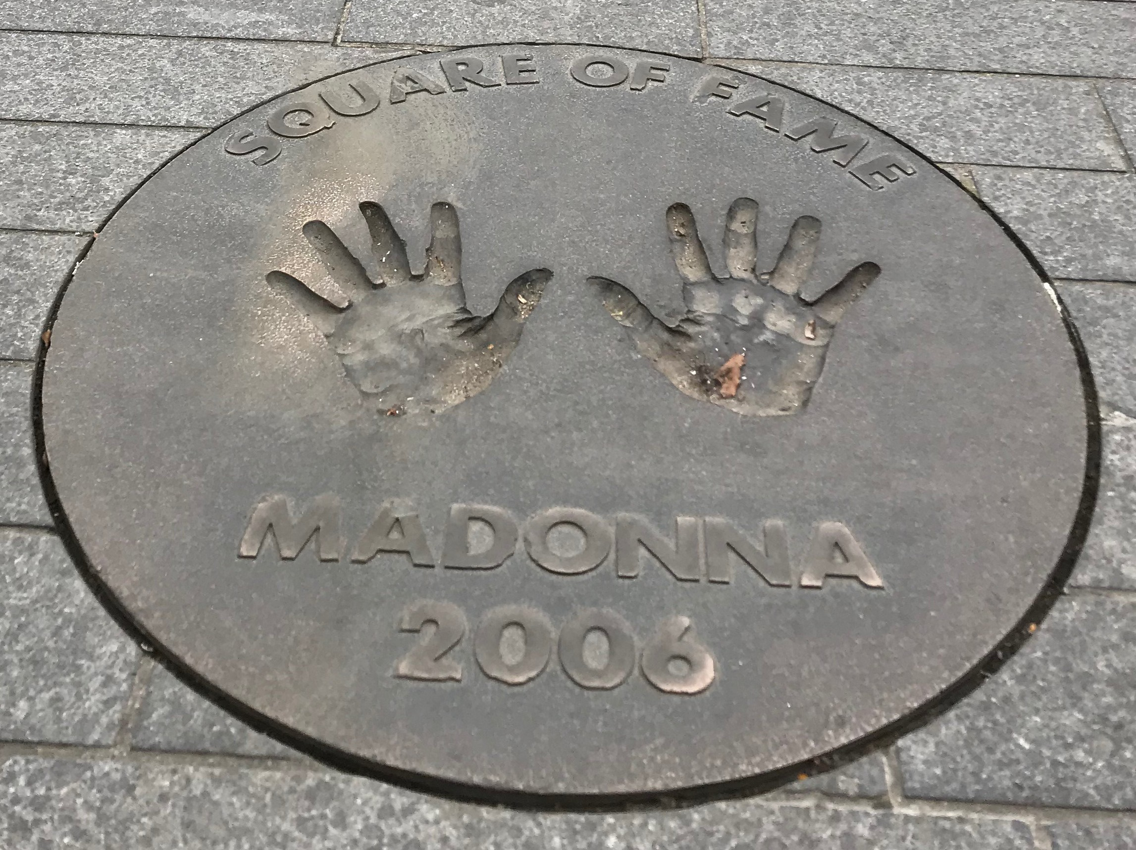 Madonna's hands at Square of Fame of Wembley Arena